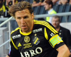 Nils-Eric Johansson during the 2013 match AIK-Elfsborg